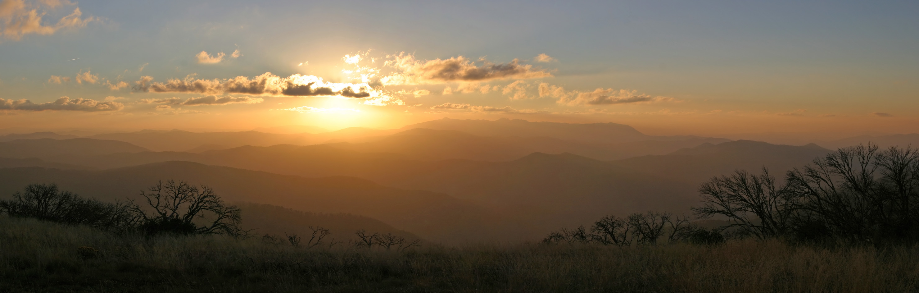 The view at sunset from the summit of Mount Feathertop in Alpine Victoria, Australia. Taken by myself with a Canon 10D.